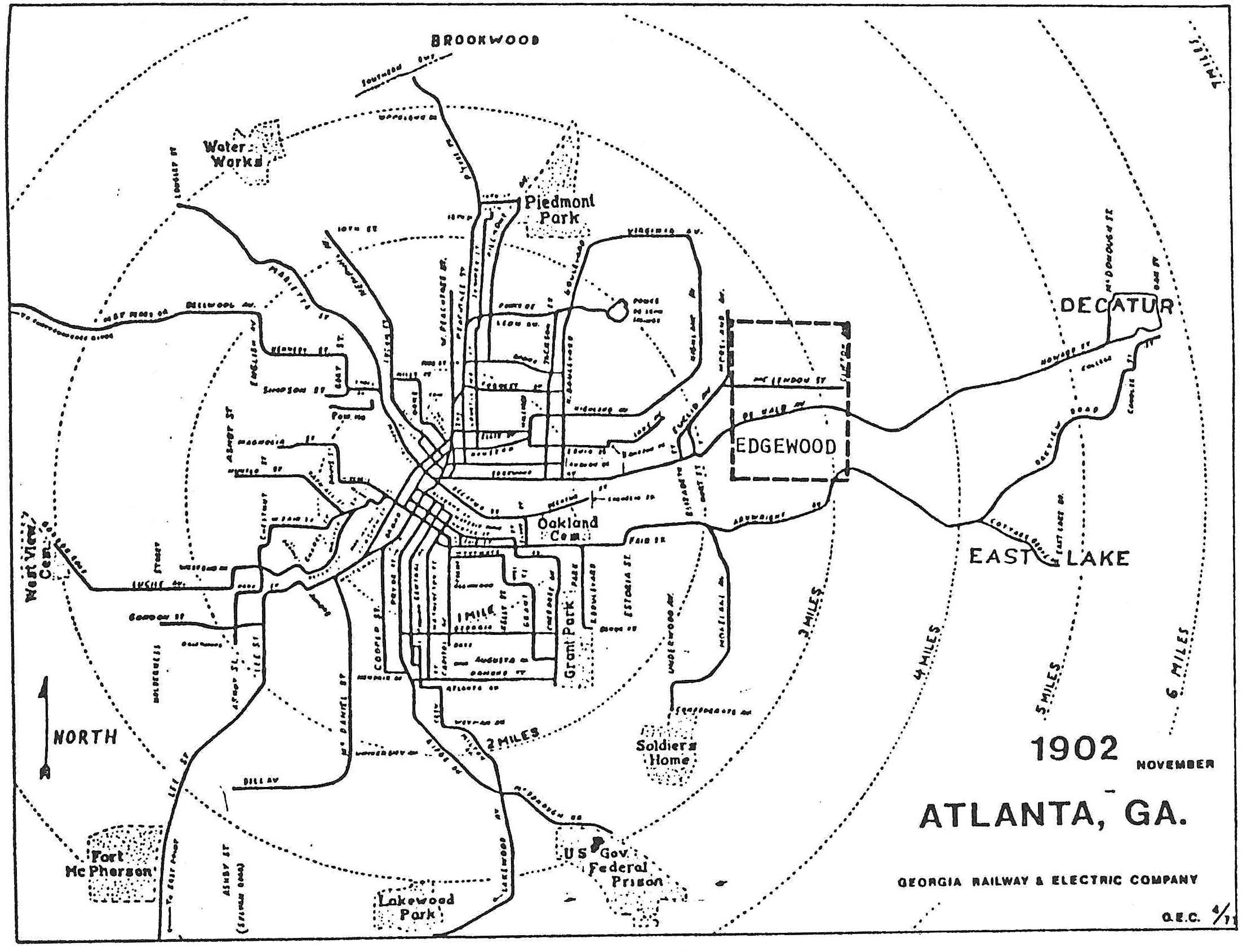 Map of the Georgia Railway and Electric Co. streetcar system in Atlanta, 1902